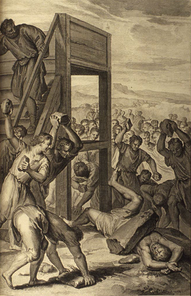 The Blasphemer Stoned, as in Leviticus 24:13-23, published 1728, in "Figures de la Bible", P. de Hondt (publisher), The Hague